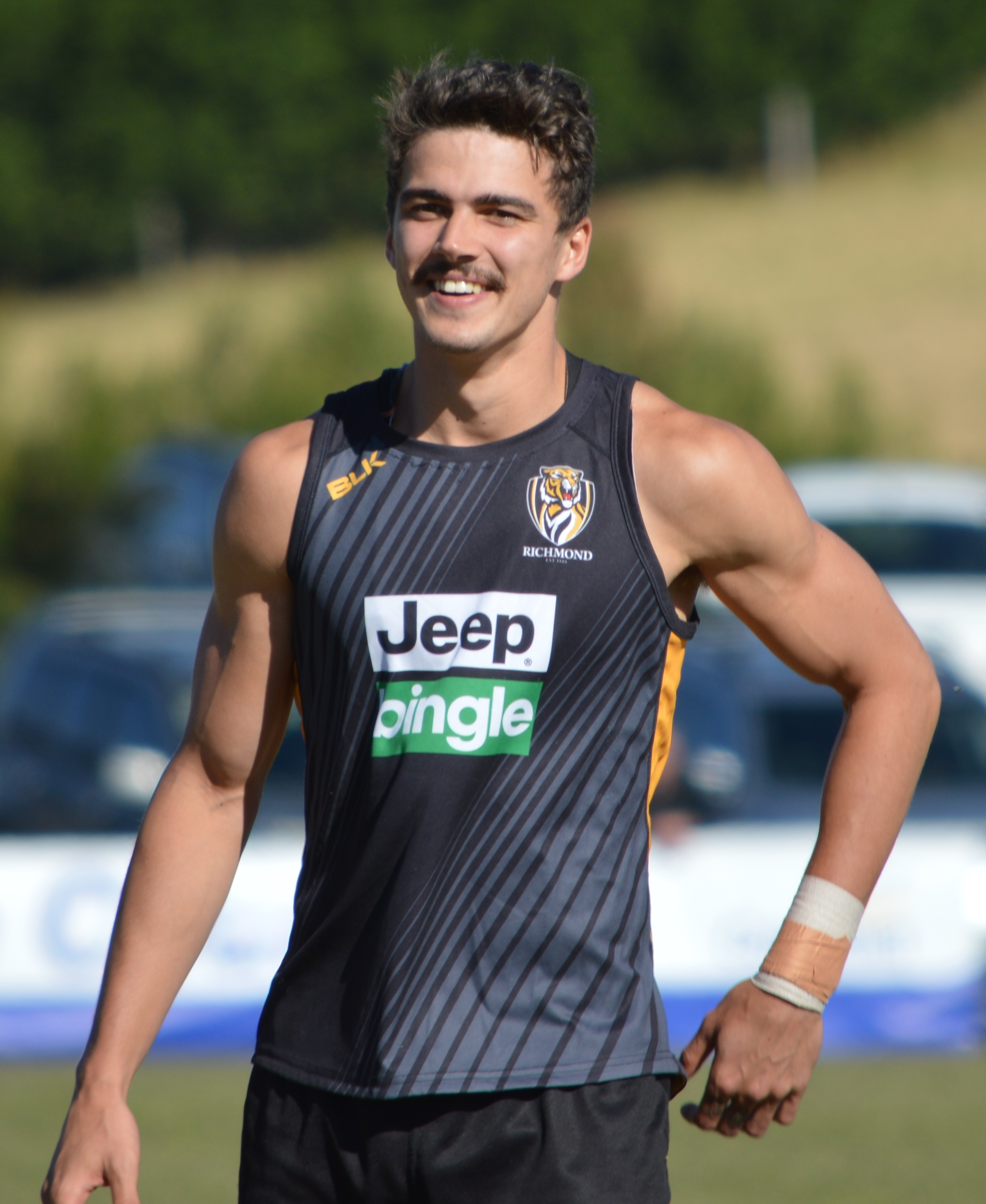 Oleg Markov at the Richmond Football Club family day in Beaconsfield Victoria on 20 December 2016.